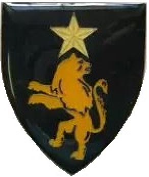 SADF Regiment Molopo emblem